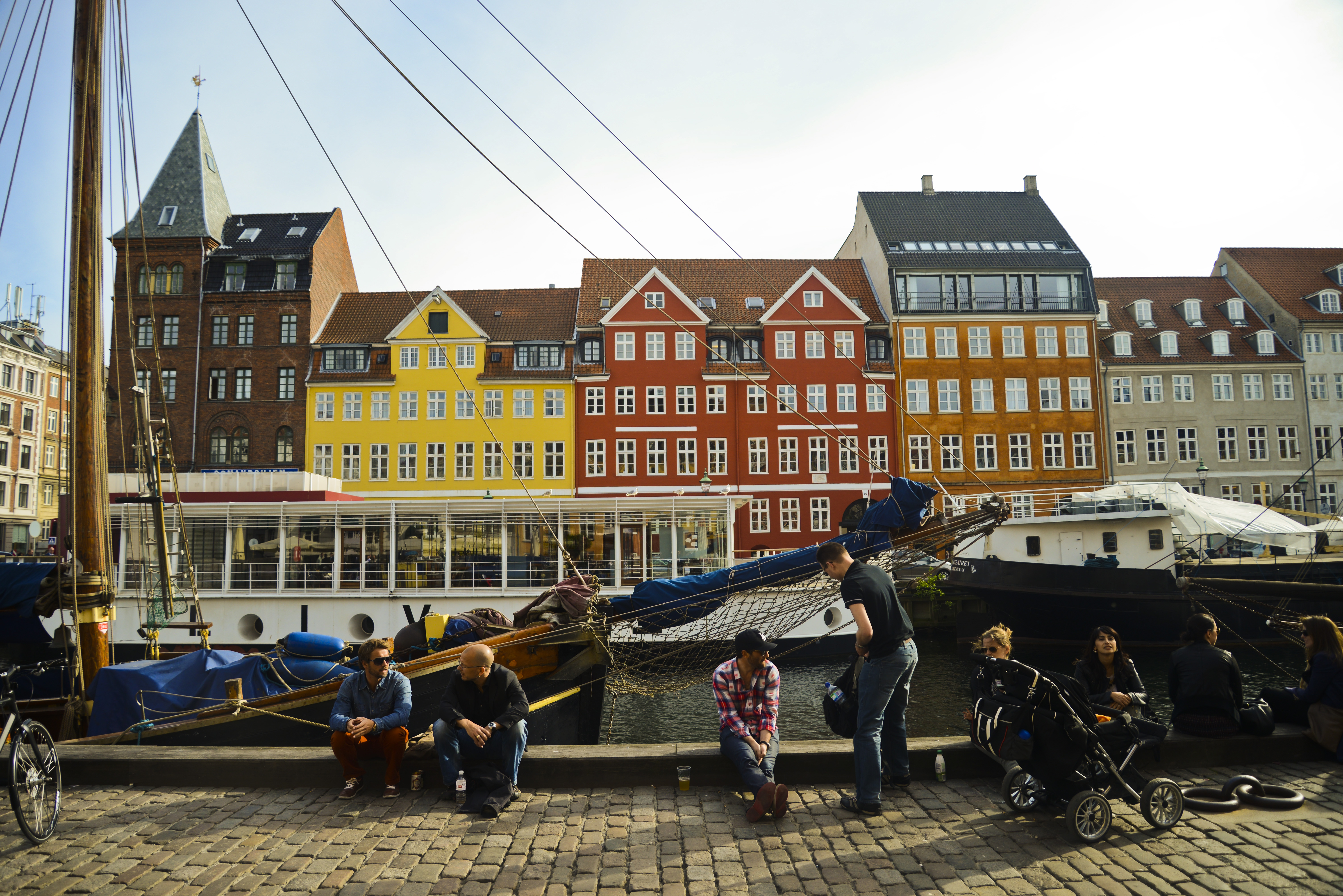 Hotel Bethel and the neighbouring Buildings seen from the other side of the Nyhavn Canal in Copenhagen, Denmark